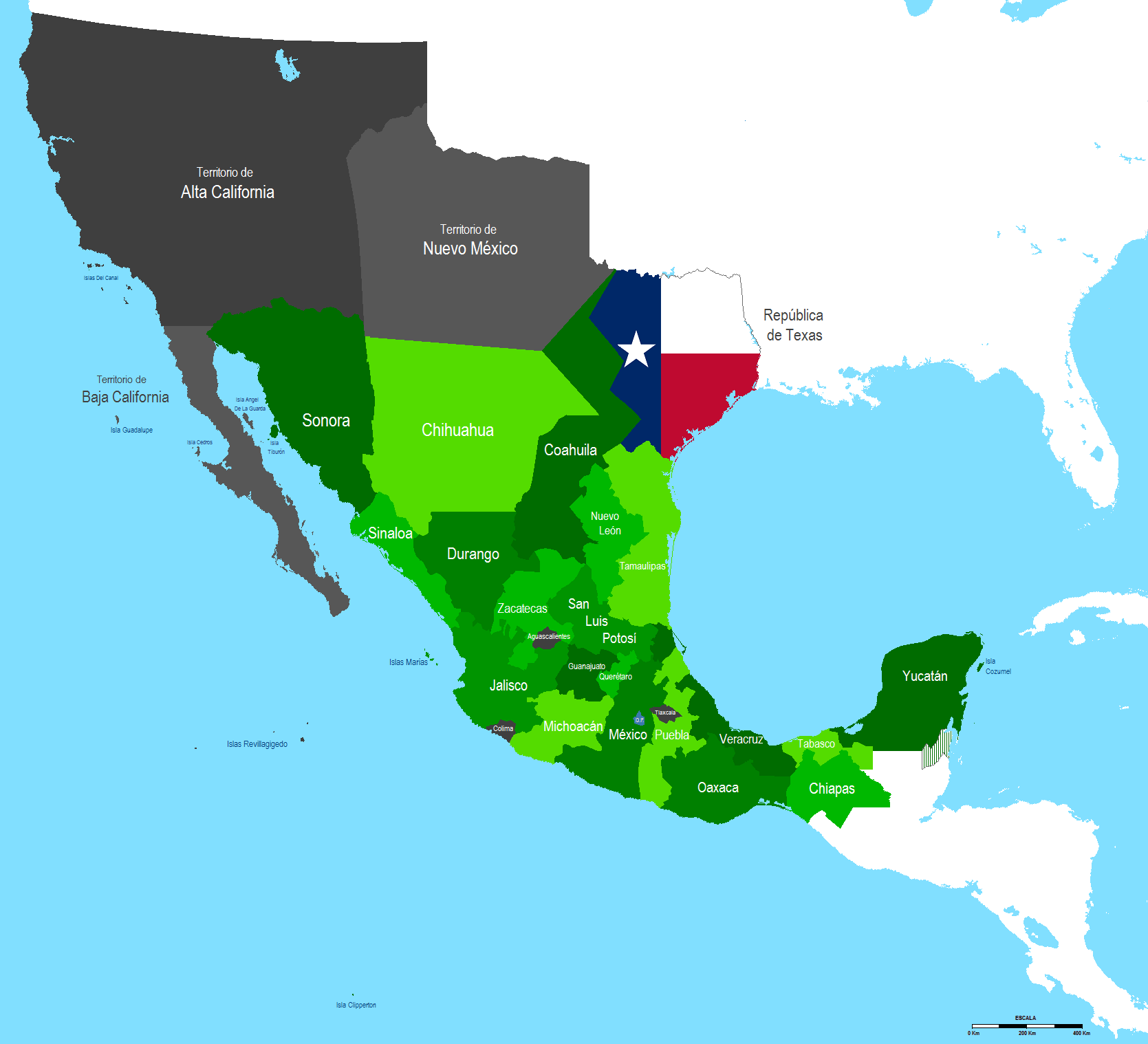 Map of Mexico in 1835 after the declaration of independence of texas